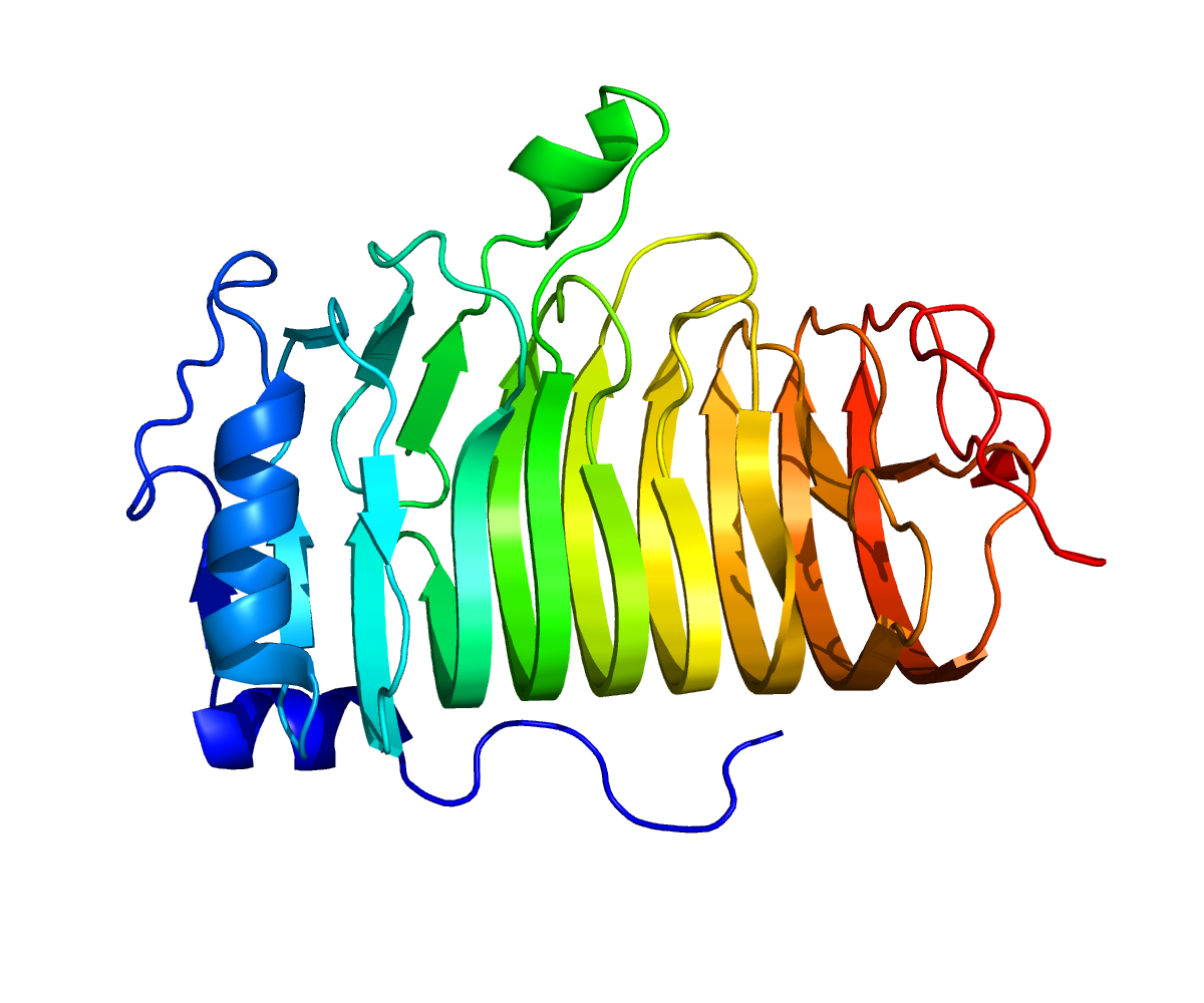 Structure of protein MS4A1.Based on PyMOL rendering of PDB 1S8B.